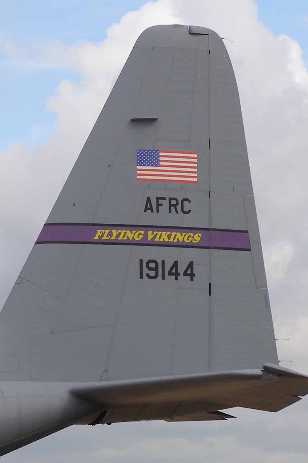 United States Air Force C-130H Hercules (close up of tail)